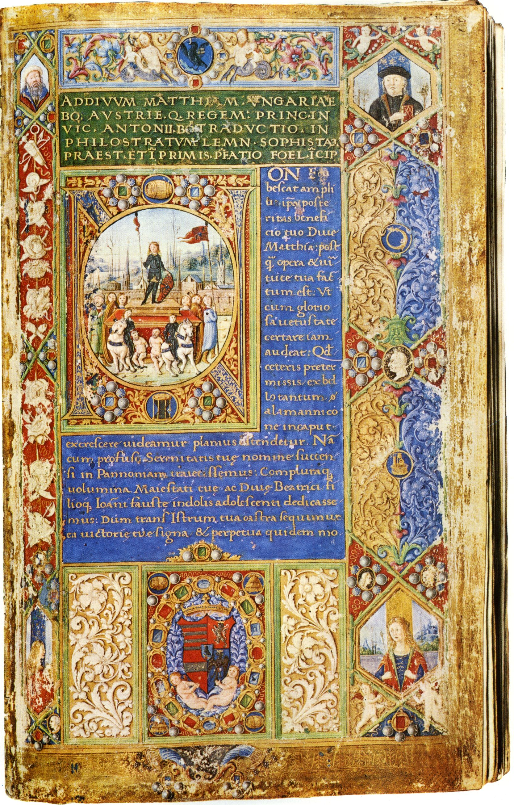 Works of Philostratus in the Latin translation by Antonio Bonfini. The manuscript was written and illuminated at Florence between 1487 and 1490 for king Matthias Corvinus. Script: Humanist Rotunda. Budapest, Széchényi National Library, Cod. Lat. 417, fol. 2r.